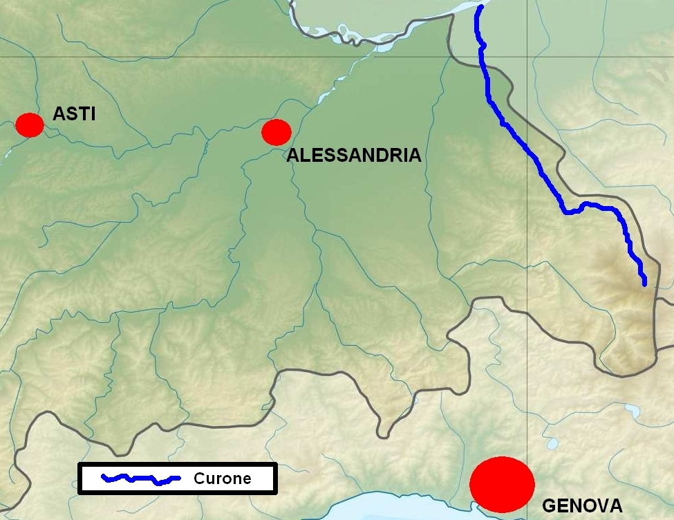 location within SE Piedmont (Italy)